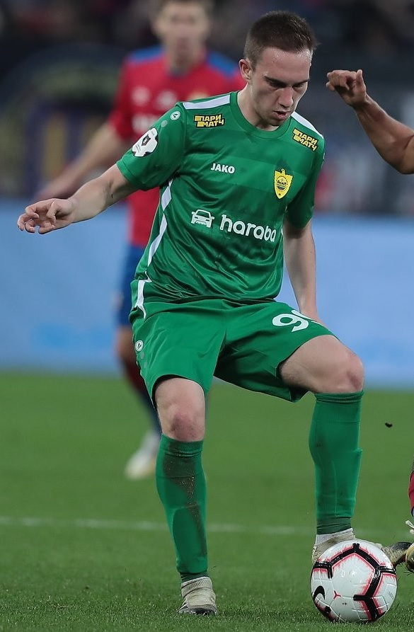 Kamil Zakirov with FC Anzhi Makhachkala in a game against PFC CSKA Moscow.